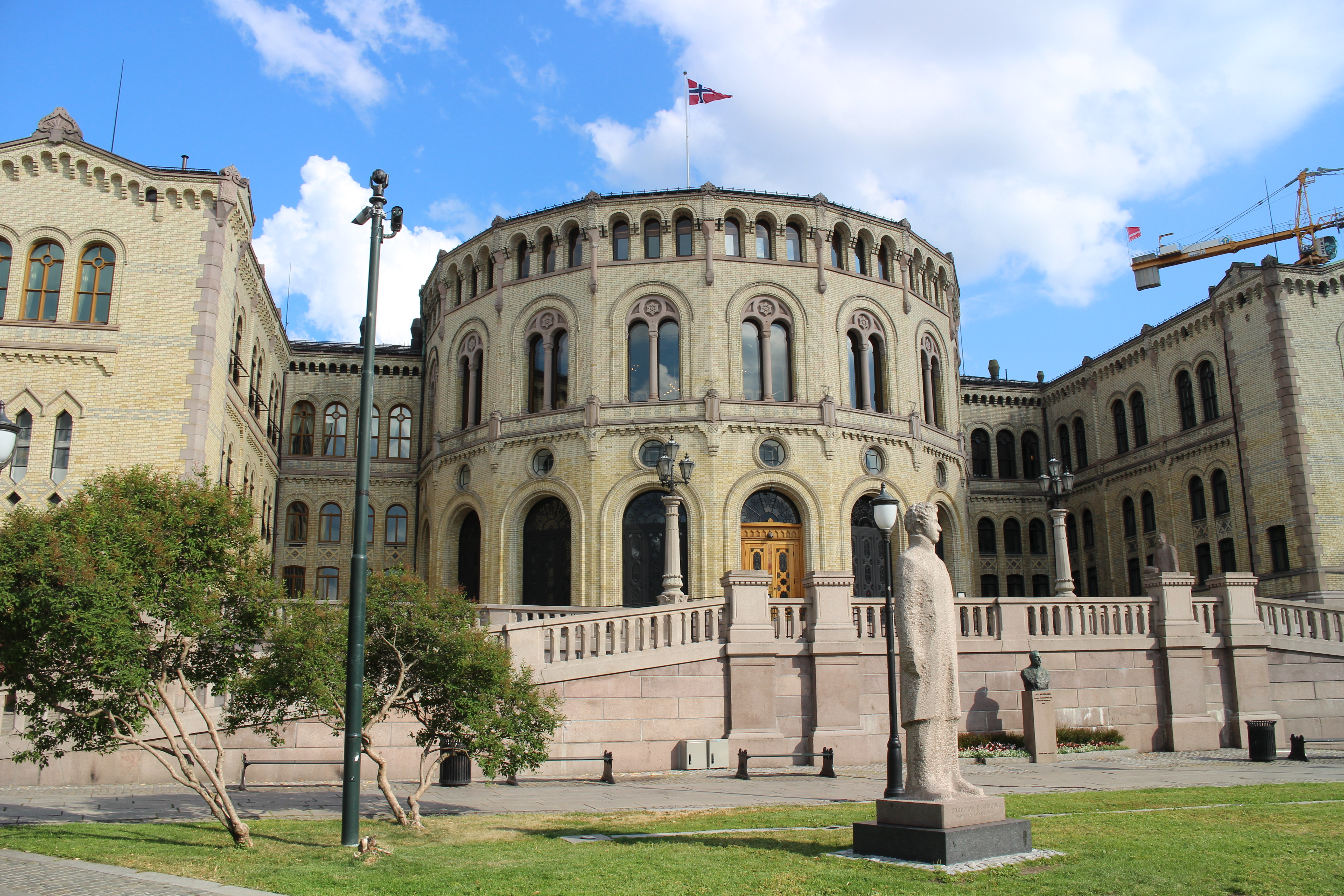 Stortingsbygningen